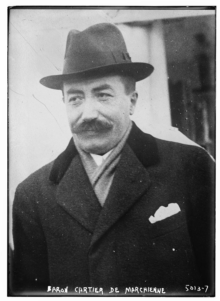 Emile de Cartier de Marchienne circa 1918